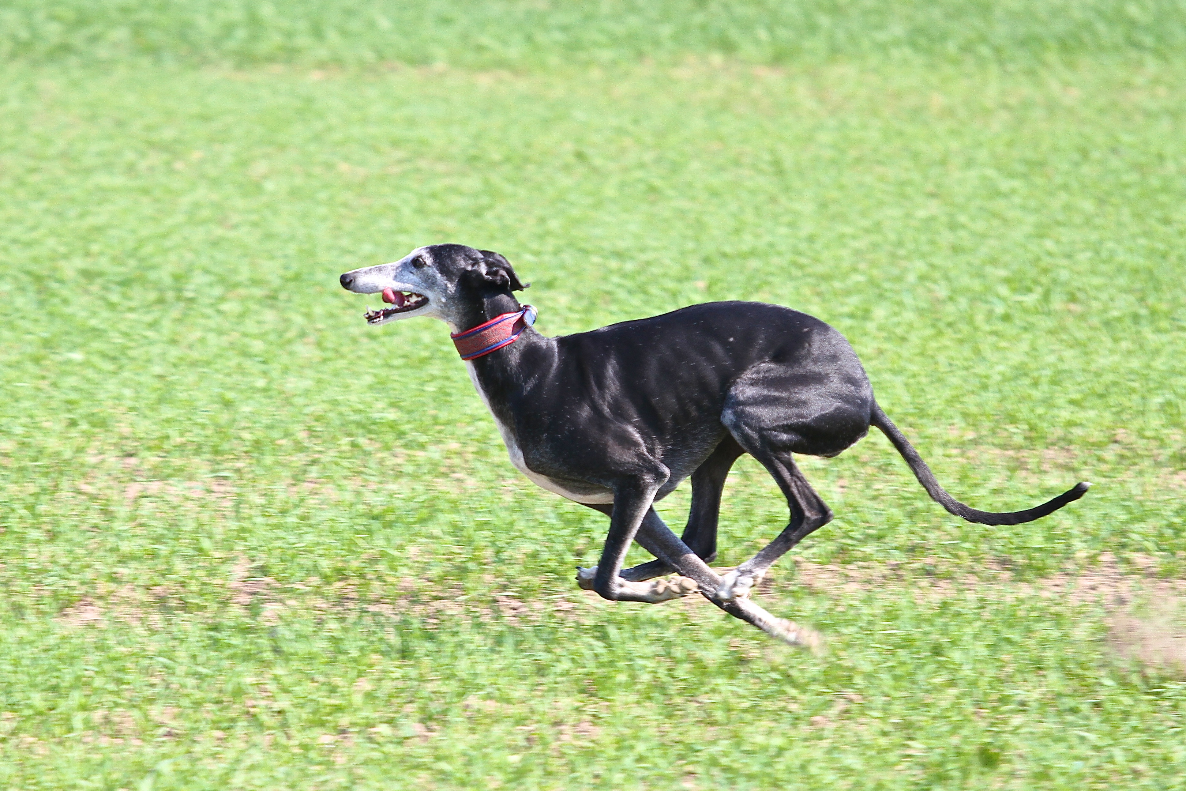 Galgo Español